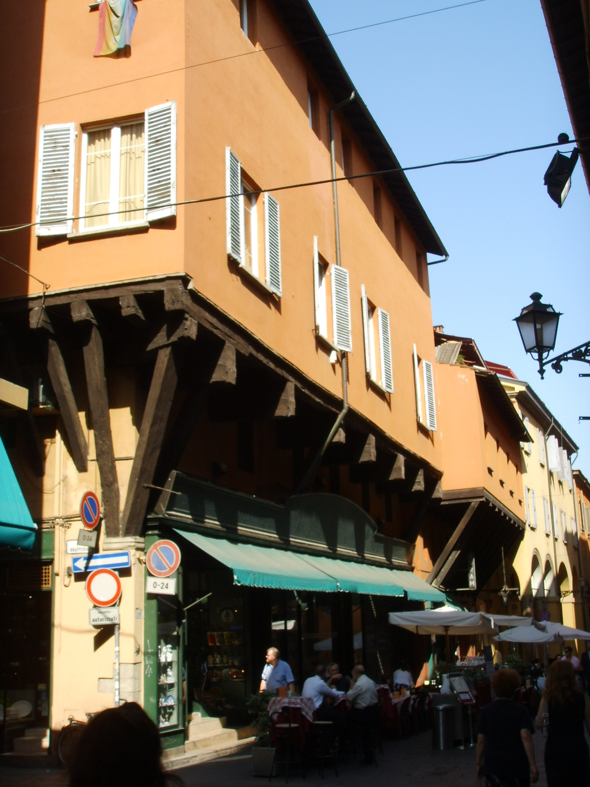 Schiavina Houses, via Clavature, Bologna, Italy